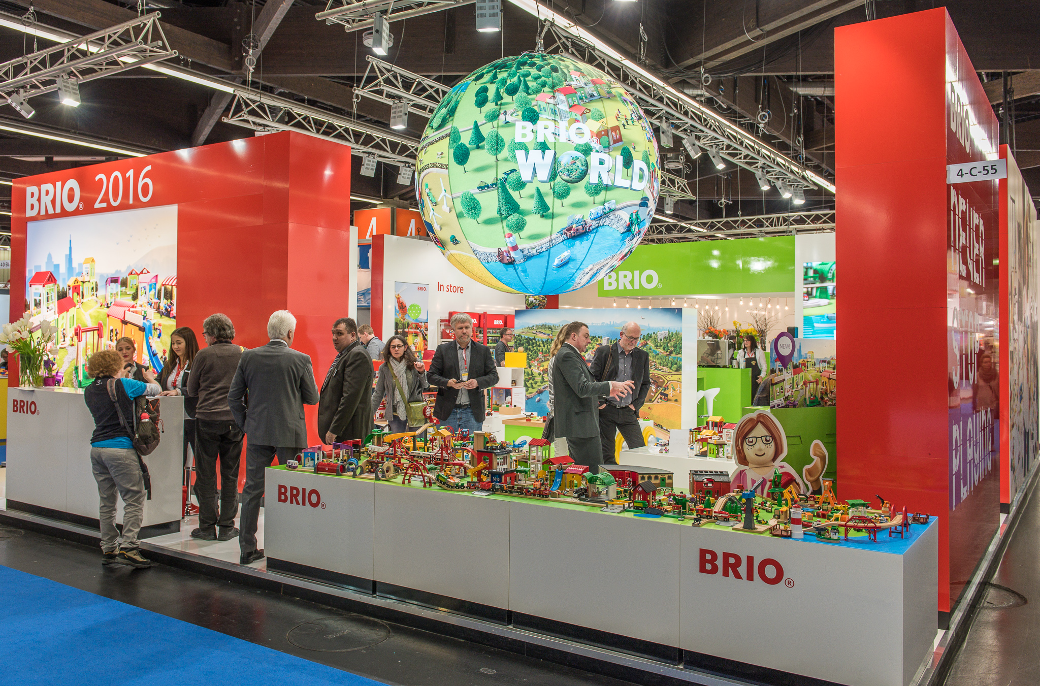 Brio,International Toy Fair Nürnberg,Messestand,Spielwarenmesse